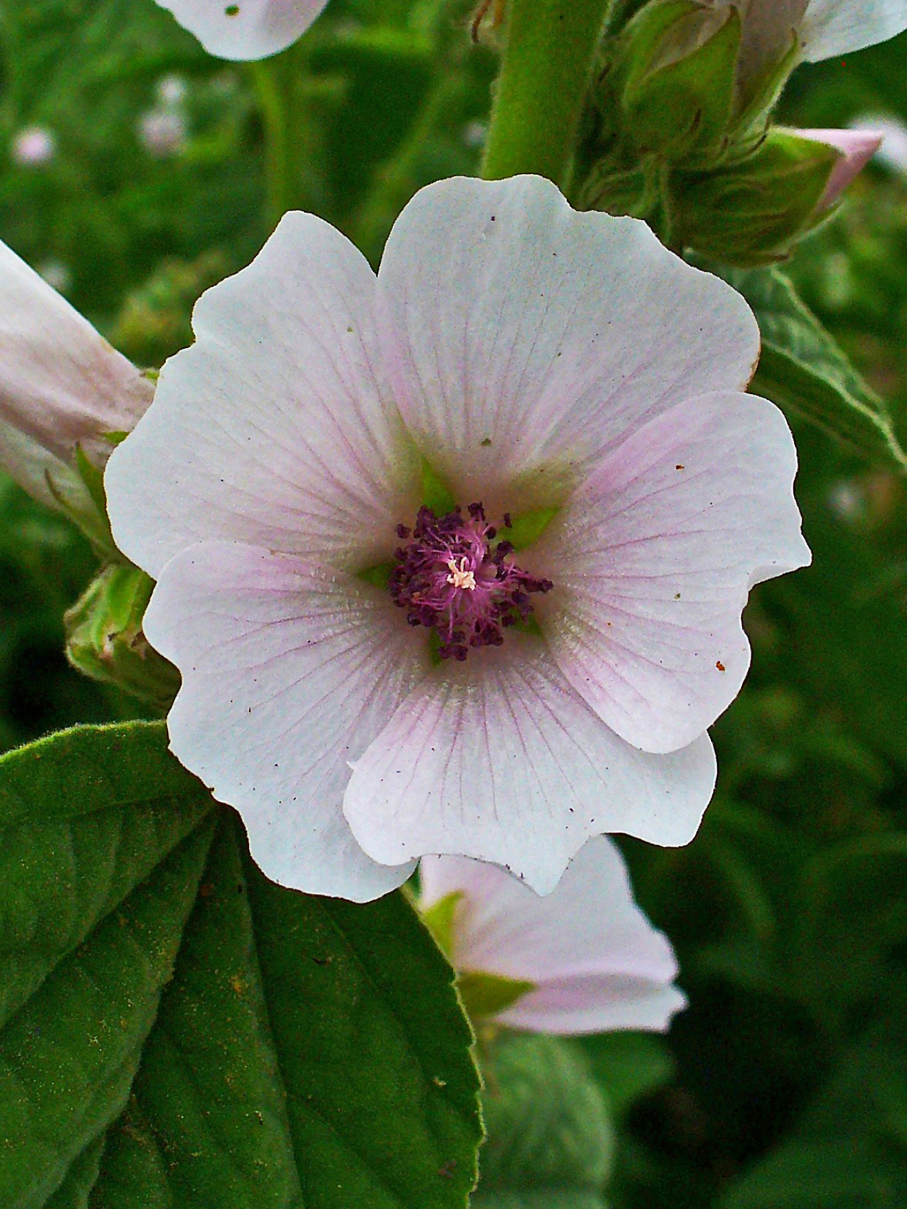 Althaea officinalis, Malvaceae, Common Marshmallow, flower. The root is used in homeopathy as remedy: Althaea (Alth.)